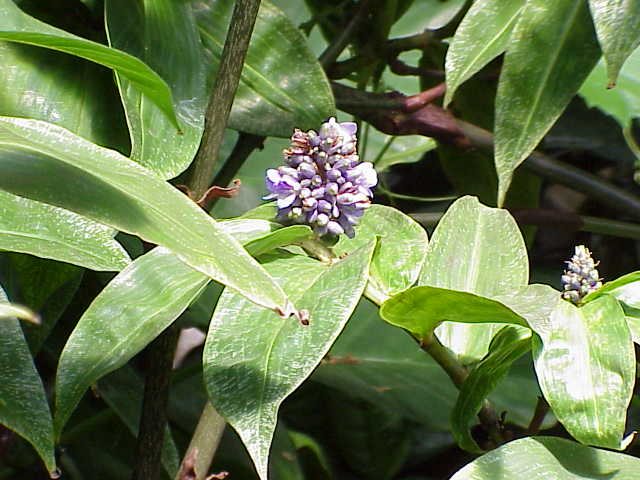 Species: Dichorisandra reginae Family: Commelinaceae Image No. 3